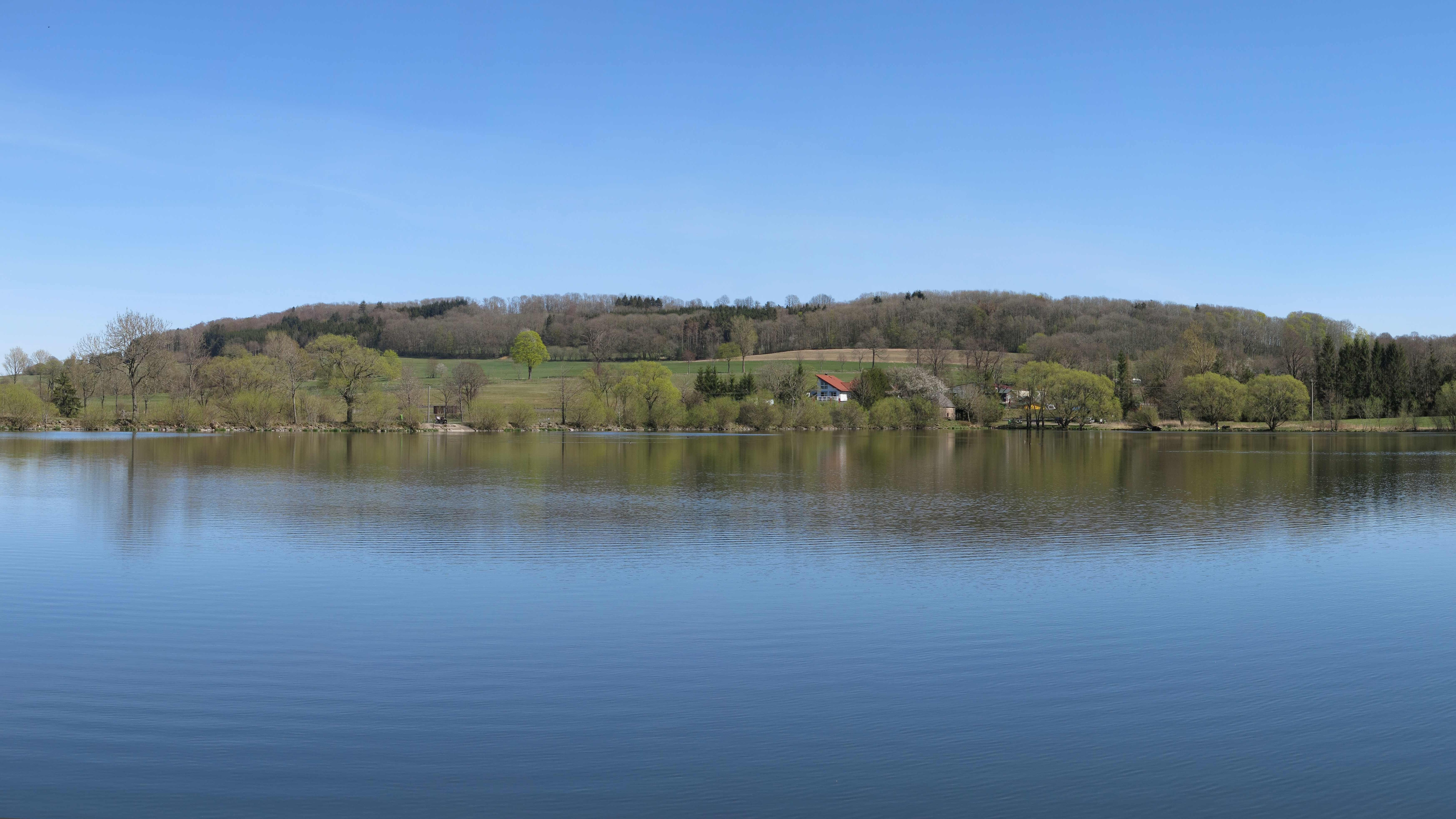 View over the pond near Nieder-Moos to the Horst in the High Vogelsberg Nature Park